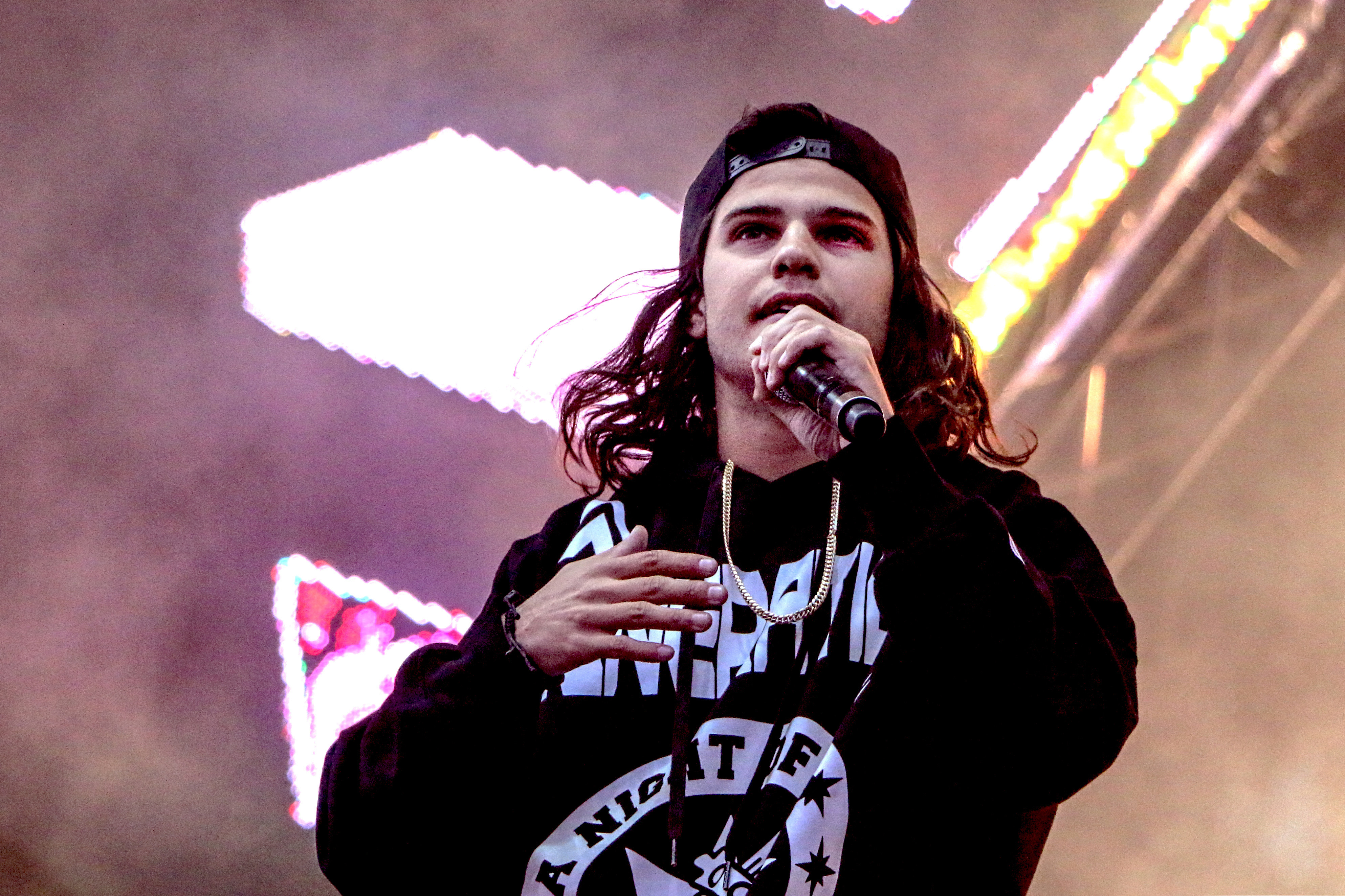 DVBBS live at VELD 2016